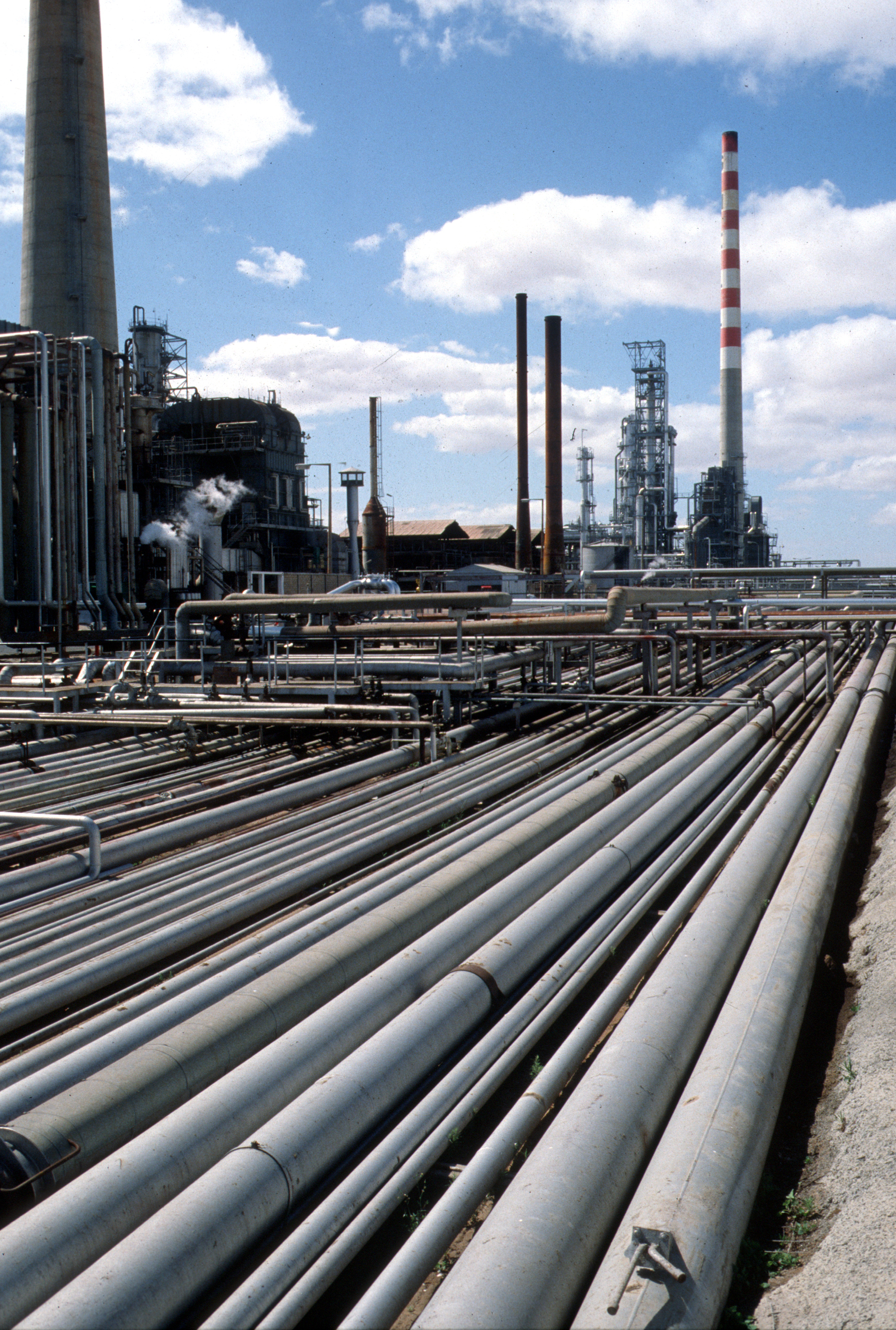 The Shell petroleum refinery, Corio Geelong, Victoria.